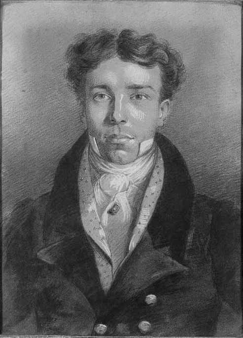 A 19th century chalk sketch of the actor J.S. Grimaldi.